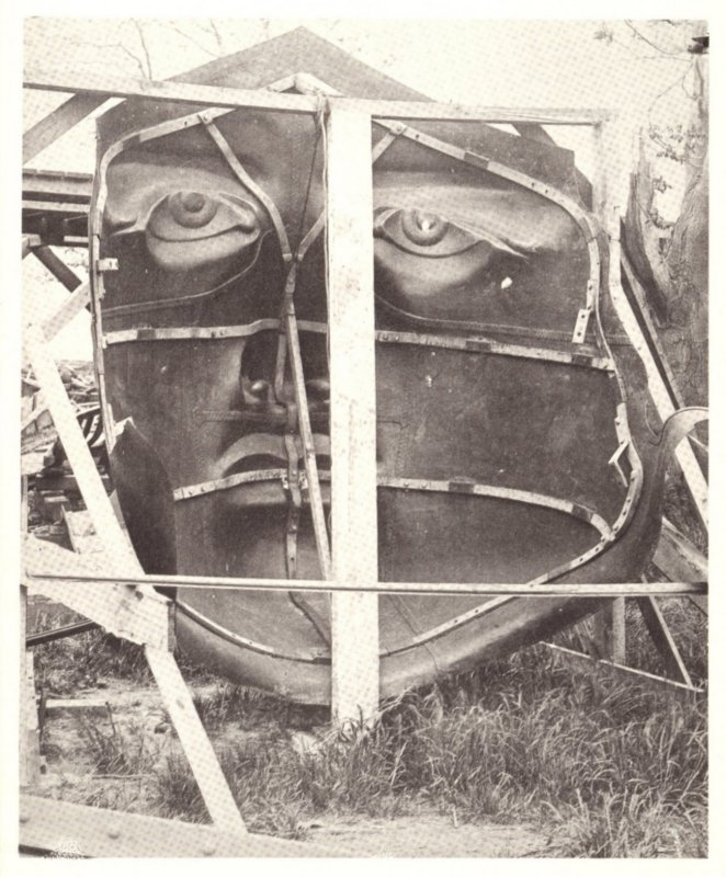 1885 photograph of the inside of the face of the Statue of Liberty, before assembly